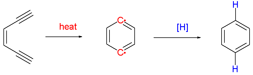 Bergman_cyclization_revised